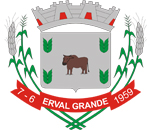 Coat of arms of the city of Erval Grande, Rio Grande do Sul, Brazil.